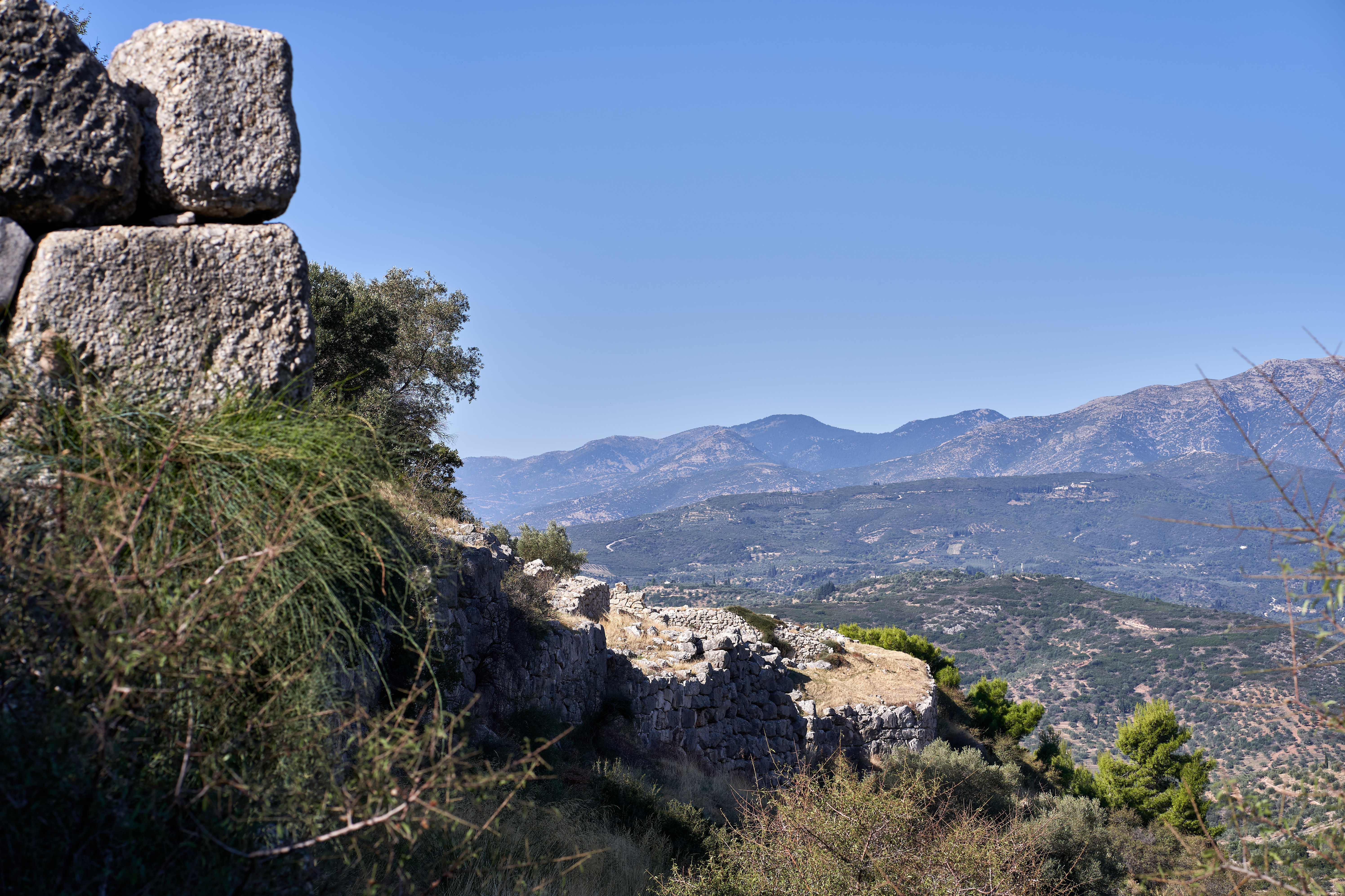 The walls of Mycenae as they look in close distance from the North Gate on October 27, 2019.